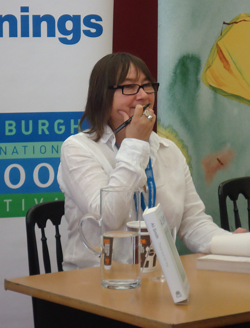 Ali Smith, writer, signing books at the Edinburgh International Book Festival.